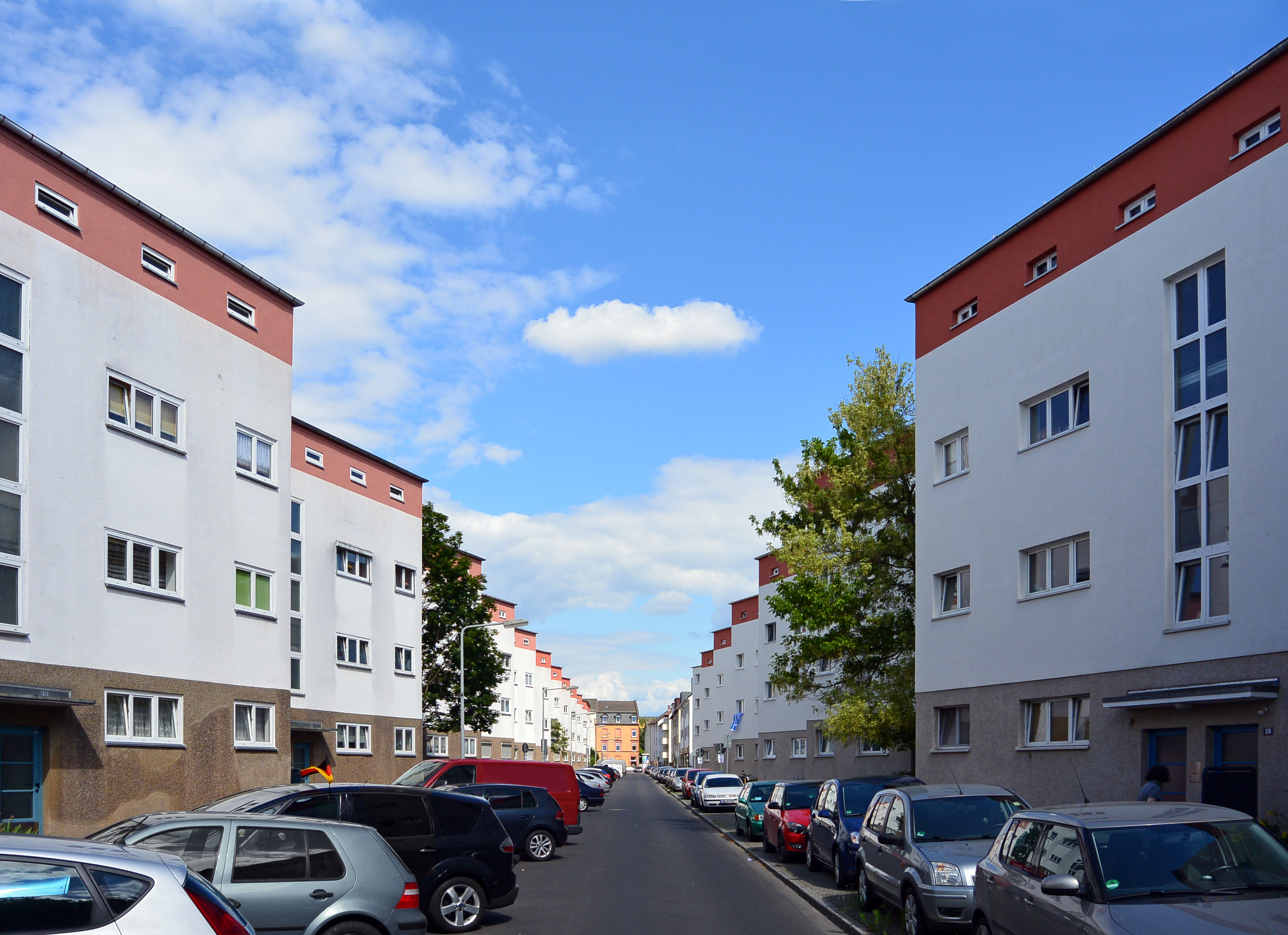 "Zig-zag ville" in Frankfurt